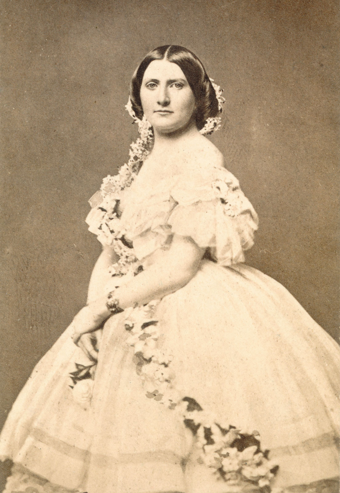 Harriet Lane, Niece of US President James Buchanan